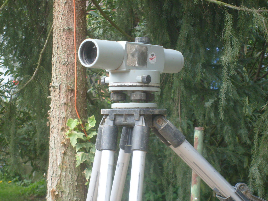 Levelling device